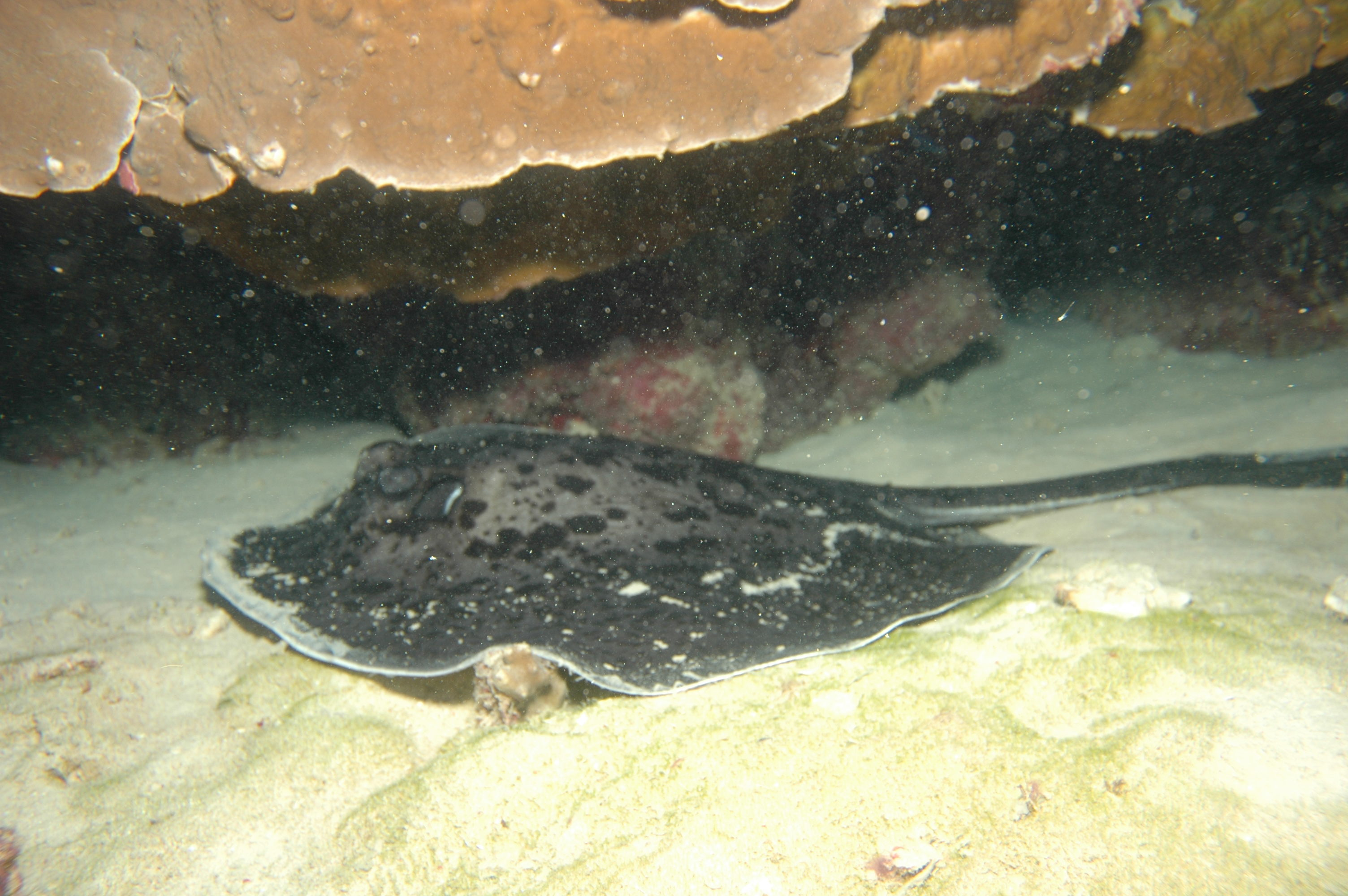 Blotched fantail ray (Taeniura meyeni) at the Great Barrier Reef, Cairns, Australia